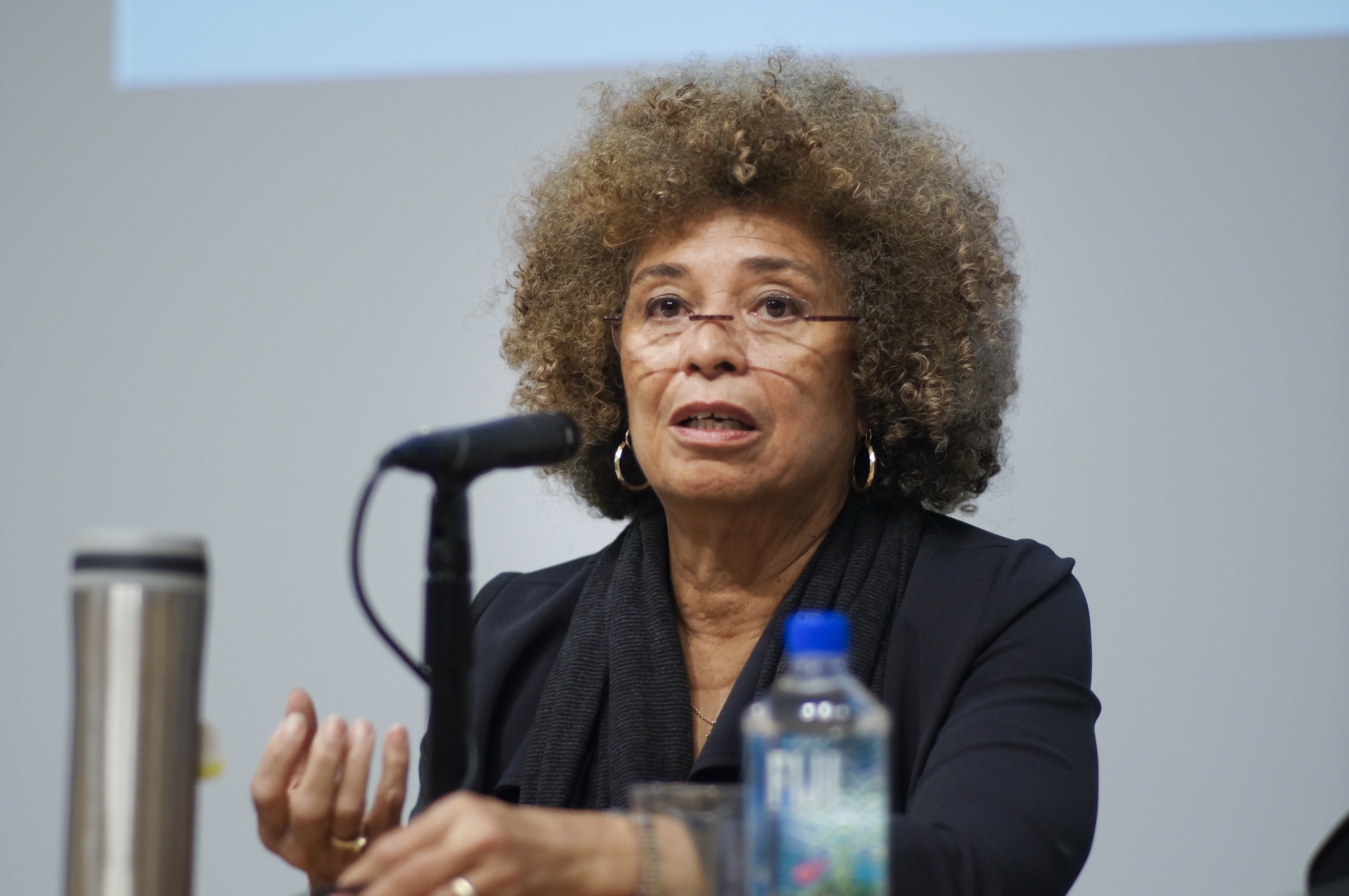 Lecture and discussion